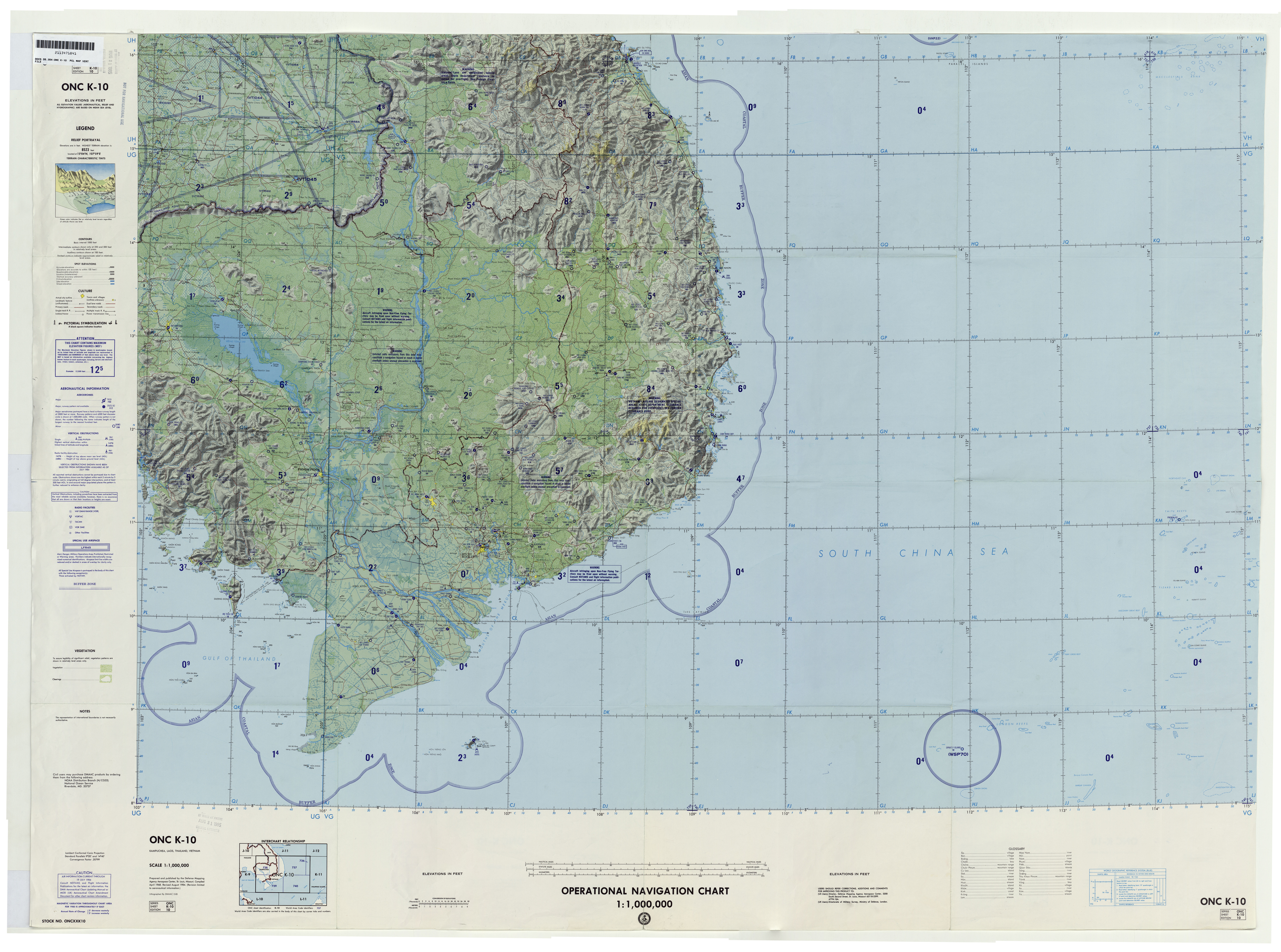 Operational Navigation Chart Series - World 1:1,000,000 Scale